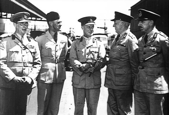 Melbourne, Vic. 1941-12. Group portrait of five officers in Spencer Street. Left to right: Lieutenant General Sir Stanley G. Savige, Air Commodore F. M. Bladen, Major General Cyril A. Clowes, Major General J. H. Cannan, Major General S. F. (Sydney) Rowell. Savige and Clowes had just returned from service in the Middle East. (Original housed in AWM Archive Store) (Donor R. Poynter)